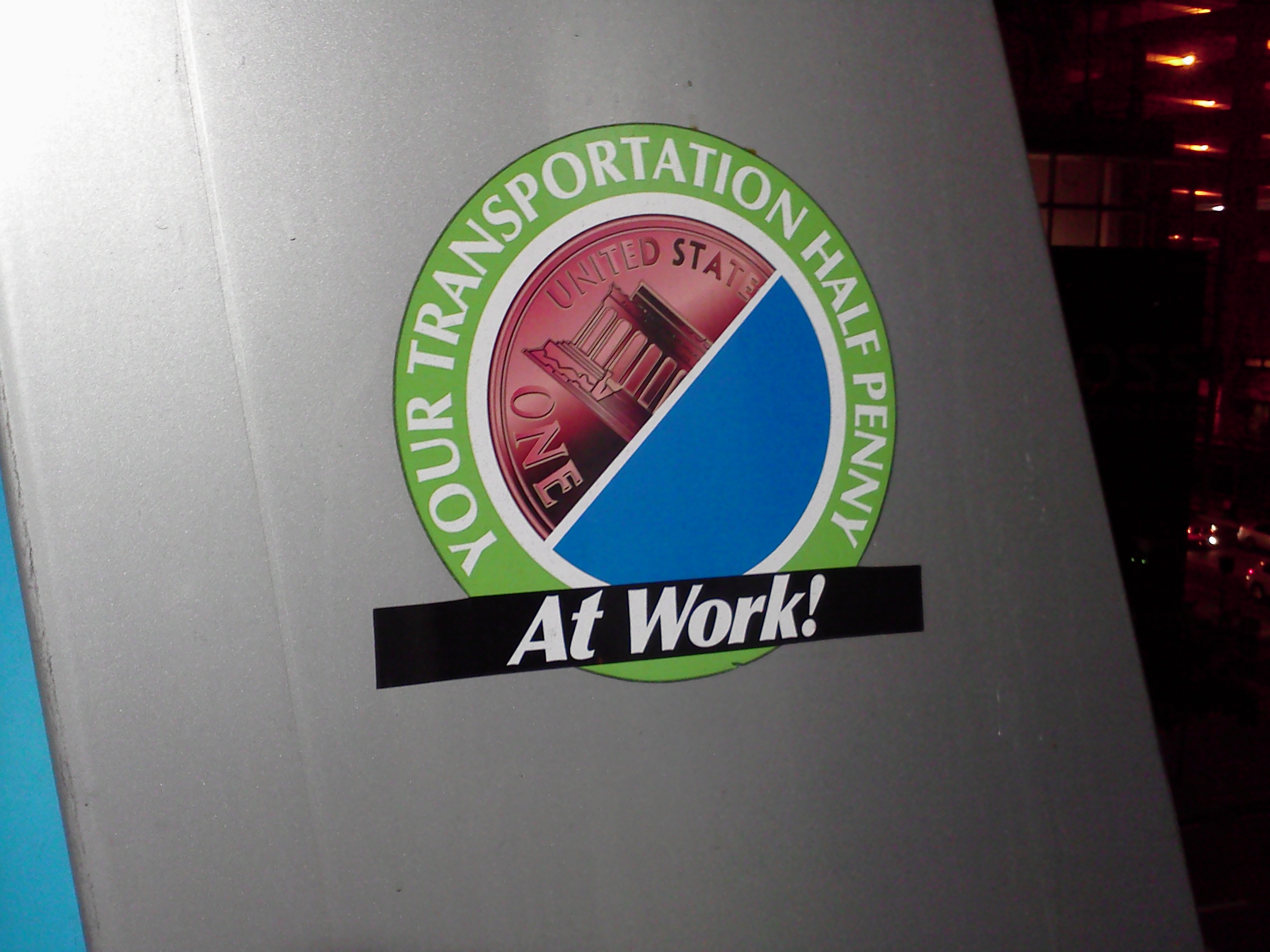 These stickers were put on many Miami-Dade Transit vehicles signifying the 2002 half-penny sales surtax that allowed new purchases and some expansions. I suppose this could possibly be copyrighted and not freedom of pano due to closeup.